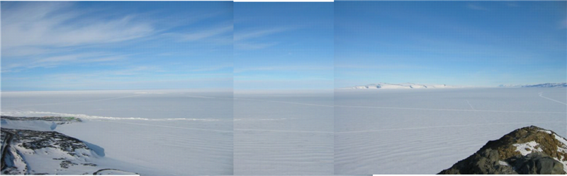 Panorama of Haskell Strait